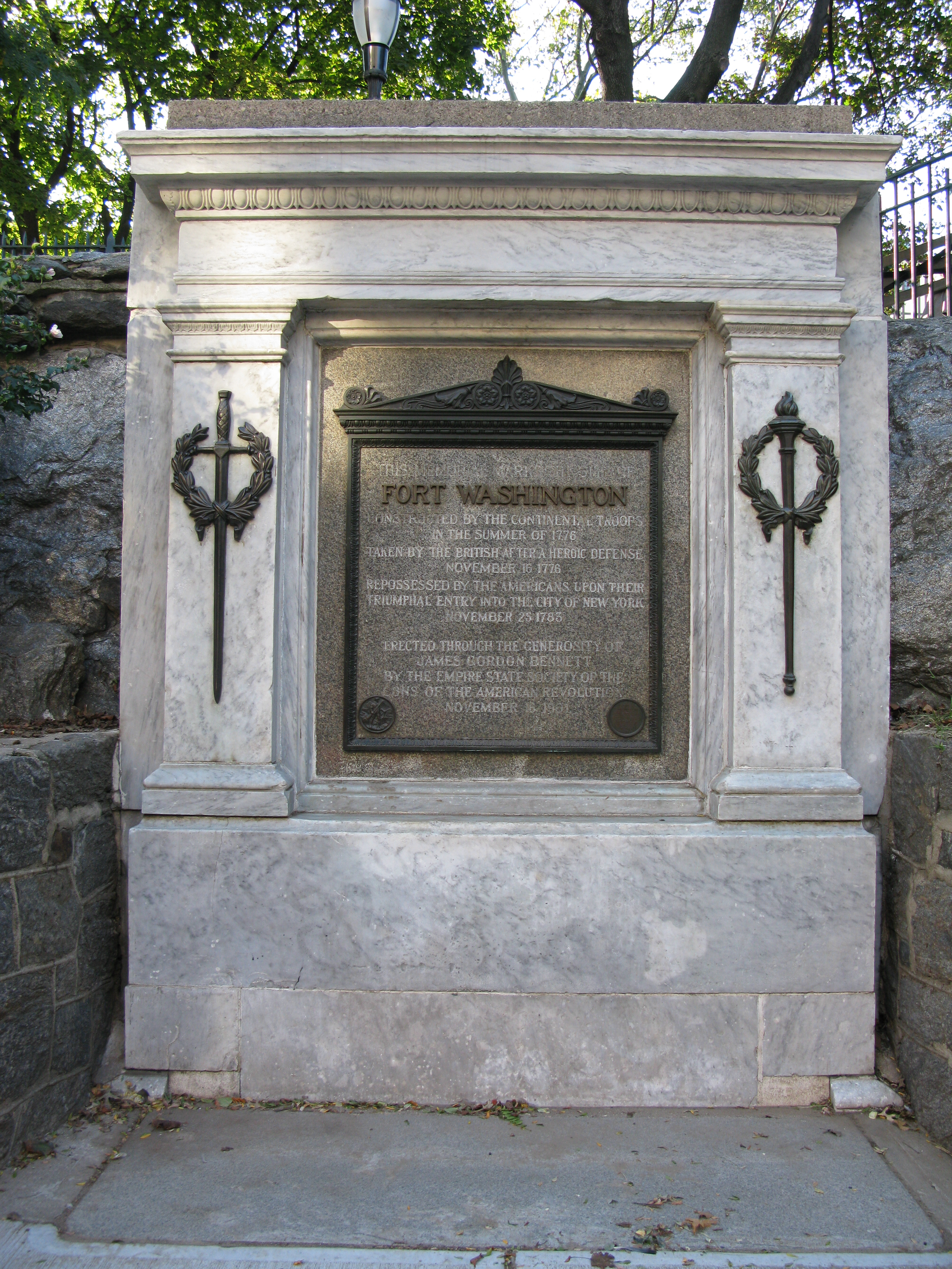 This photo is of Wikis Take Manhattan goal code A4, Bennett Park (New York).